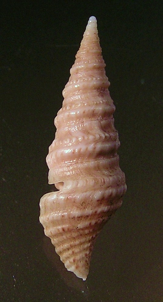 Turris ruthae Kilburn, 1983 , a turrid snail form the family Turridae; South Africa